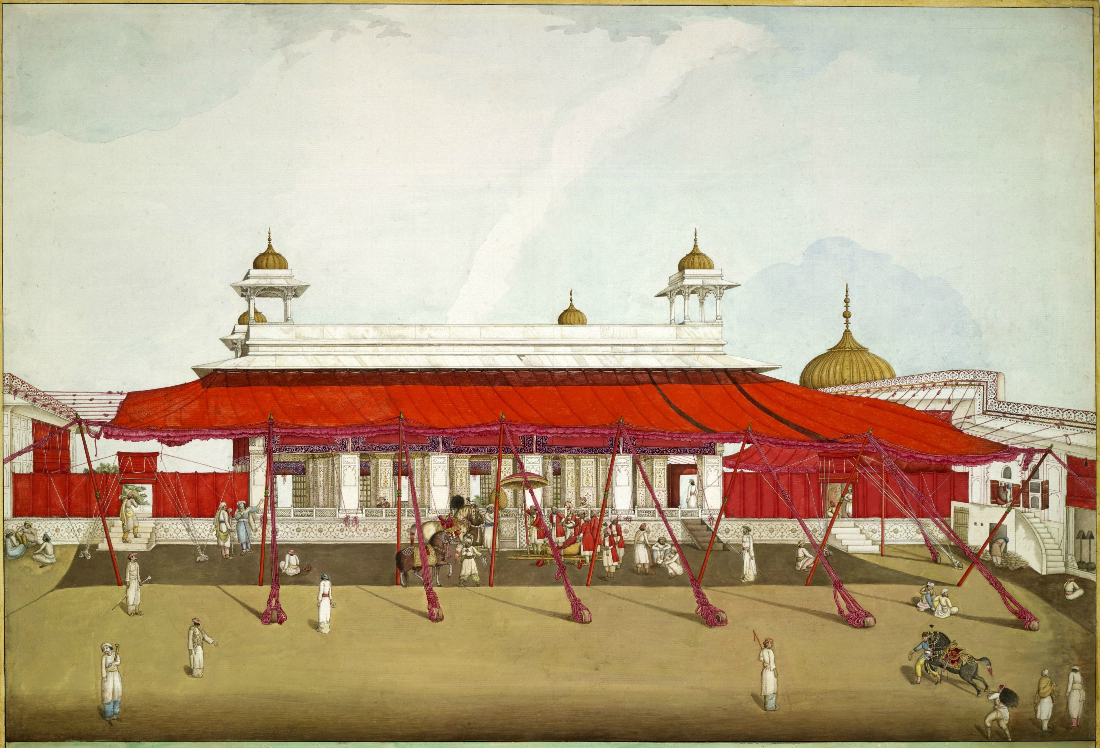 Watercolour of the Divan-i Khass in the Palace in the Delhi Fort, by Ghulam 'Ali Khan, 1817. This drawing shows the red awnings and 'shamianas' fully rigged, a scene of vigorous activity beneath as a palanquin is prepared for the Emperor's departure, with various figures going about their duties. Inscribed beneath in ink in Persian: amal-i Ghulam 'Ali Khan musavvir fidvi-i Muhammad Akbar Shah Padshah Ghazi san 11 panjum mah-i shavval' (the work of Ghulam 'Ali Khan the painter, in the 11th year of Akbar Shah, 5th day of the month Shavval); and under the appropriate buildings from the left: aqb-i hamam' (back of the baths); 'naqsha-i anjuman-i Divan-i Khass dar darul khilafah Shahjahanabad' (the body of people in front of the Divan-i Khass)'; tasbih khana'(the emperor's prayer chamber on the south of the latter)'; hamam andrun-i mahall-i mubarak' (baths within the private part of the palace)'; jalau khana' (entrance hall on the extreme right)'; burj musamman' (on the golden dome). On the reverse is a faded inscription in